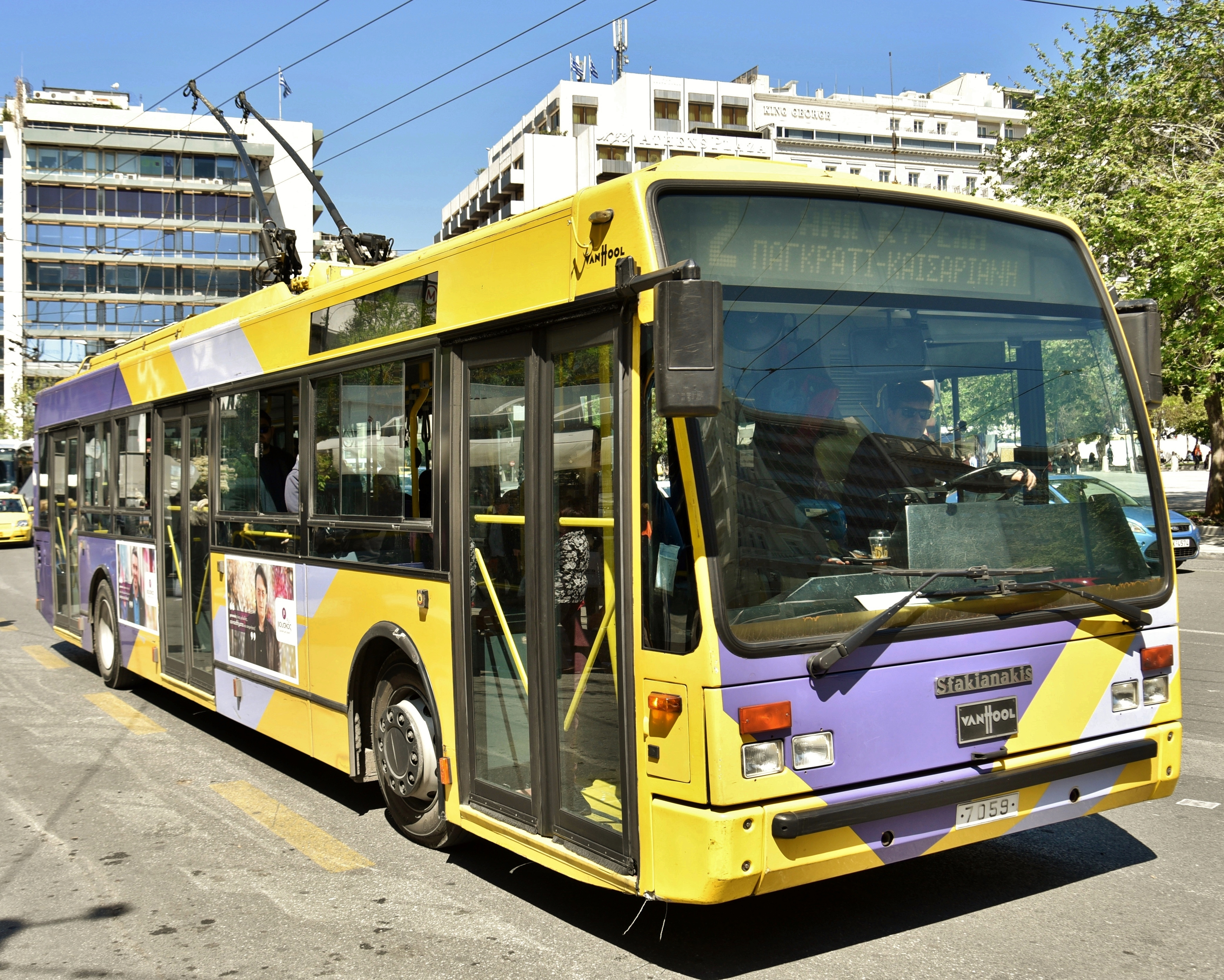 An OSY Van Hool trolleybus, no. 7059, in Syntagma Square, Athens